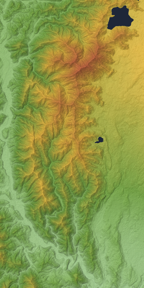 Tenshi Mountains in the border between Shizuoka and Yamanashi prefectures , Honshu, Japan.